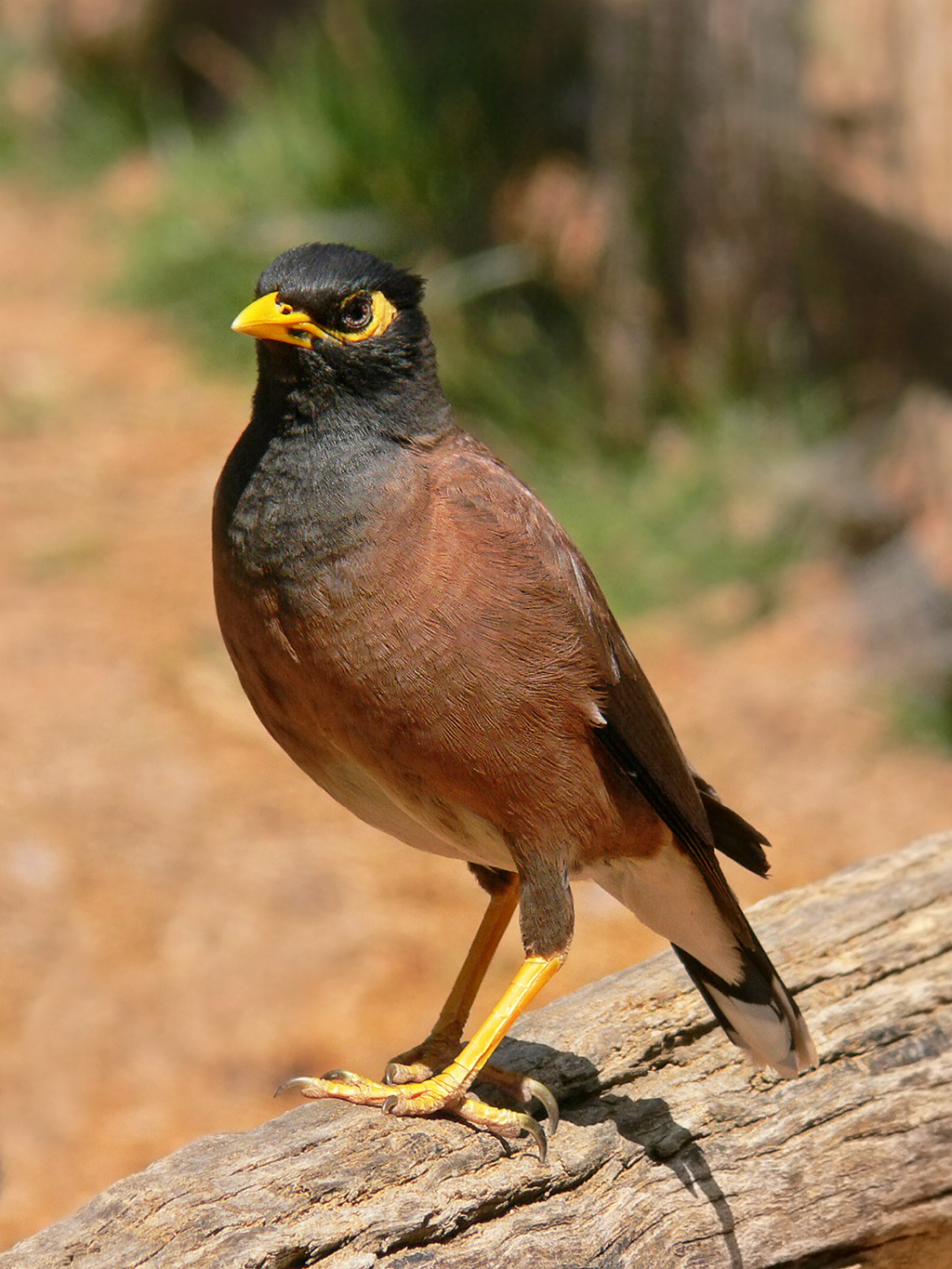 Common Myna Acridotheres tristis, feral, Australia. The Common Myna is readily identified by the brown body, black hooded head and the bare yellow patch behind the eye. The bill and legs are bright yellow. There is a white patch on the outer primaries and the wing lining on the underside is white.